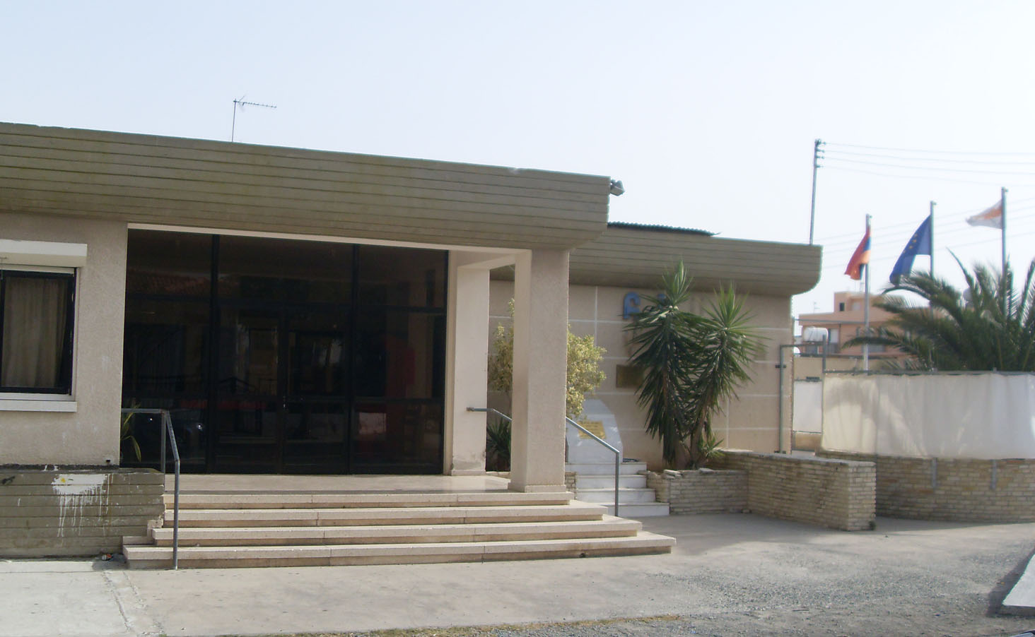 AYMA premises in Strovolos, Nicosia